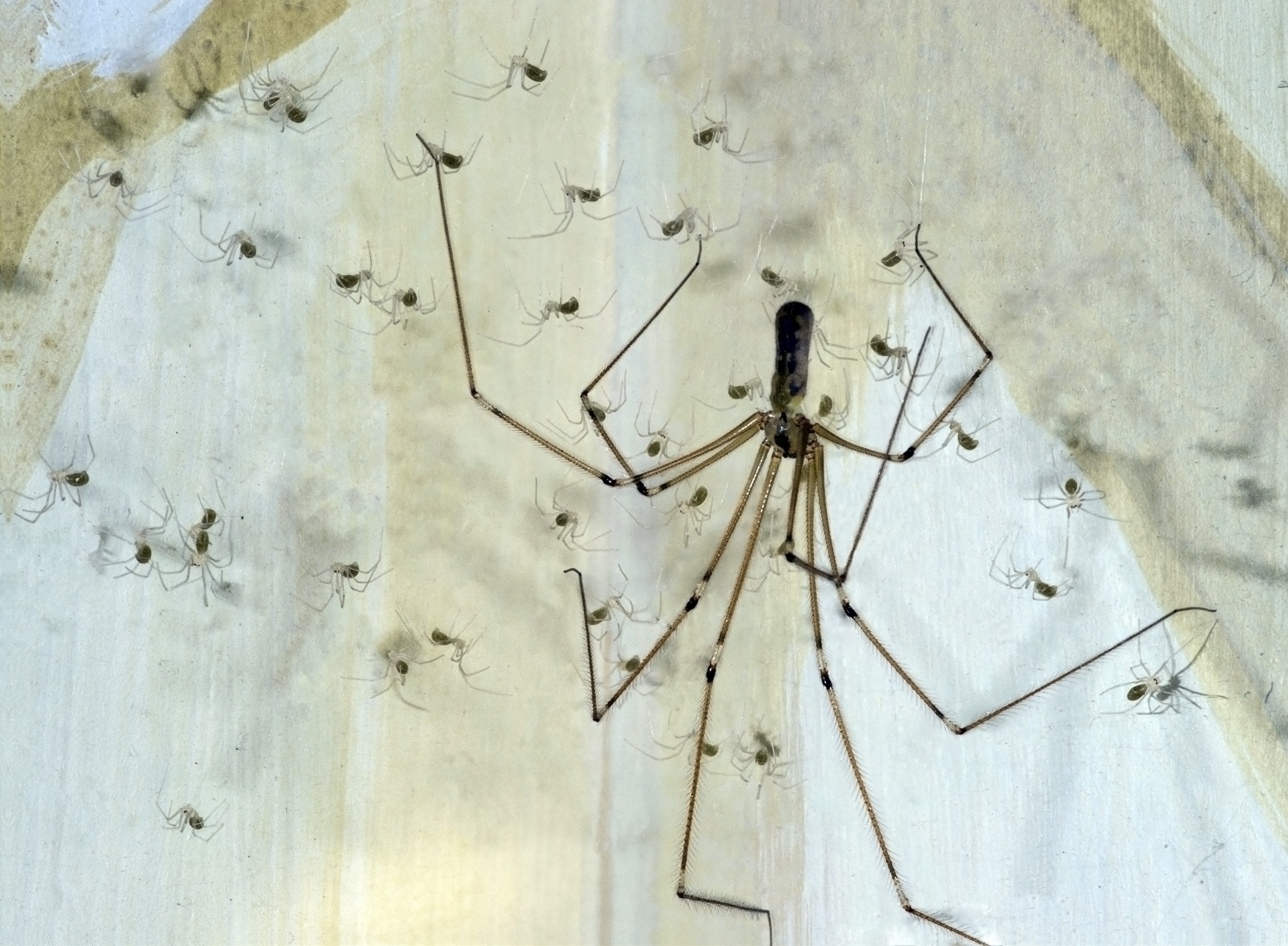 Daddy longlegs - Madame and her children